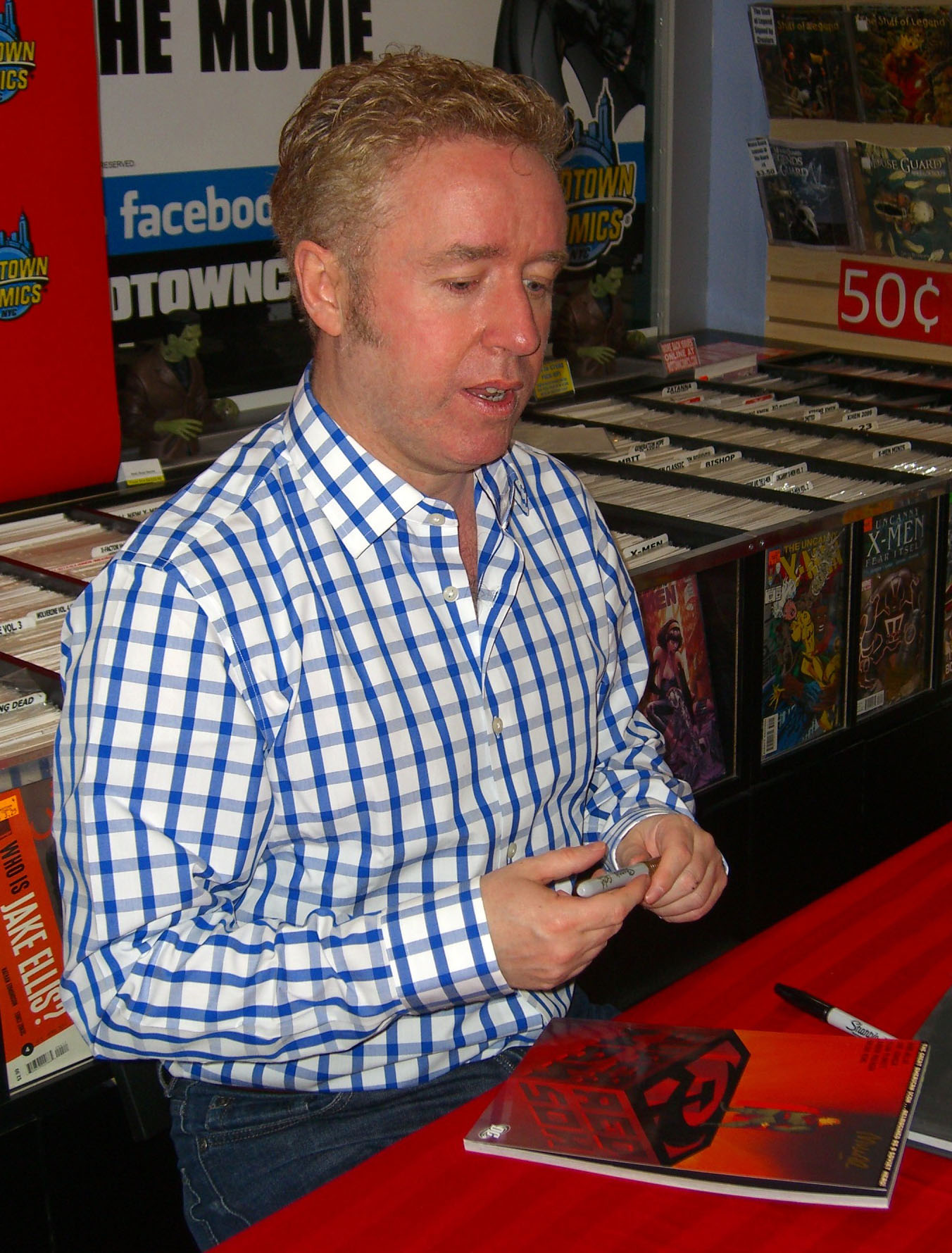 Scottish comics writer Mark Millar at an April 25, 2013 signing at Midtown Comics in Manhattan for his miniseries, Jupiter's Legacy, which debuted the day prior. In the photo, Millar is signing a copy of one of his previous works, Superman: Red Son. This photo was created by Luigi Novi. It is not in the public domain, and use of this file outside of the licensing terms is a copyright violation.